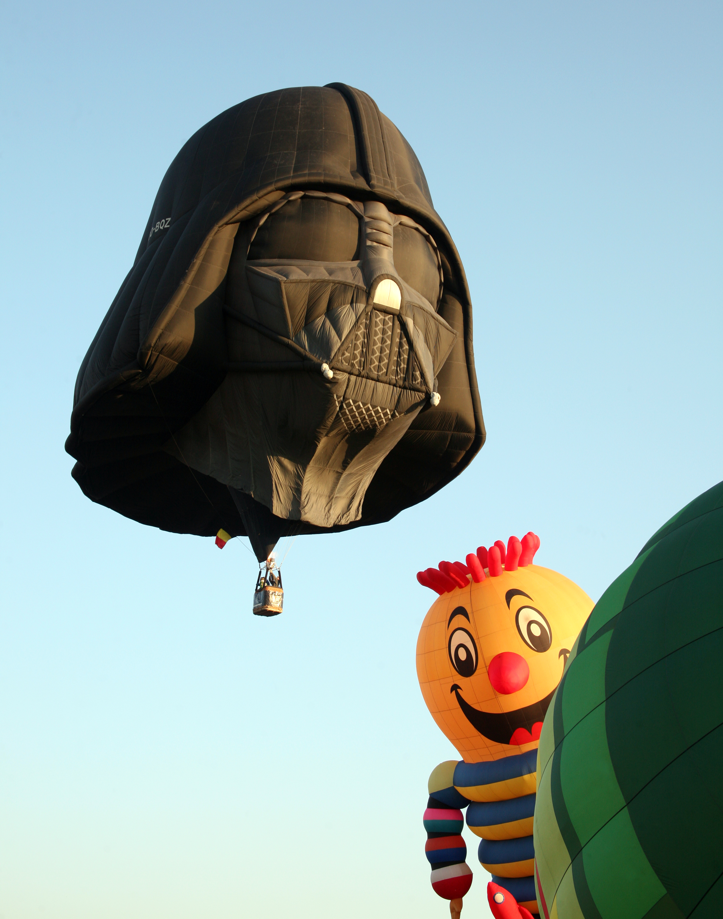 Hot Air Balloon festival in Leon, Guanajuato, Mexico.